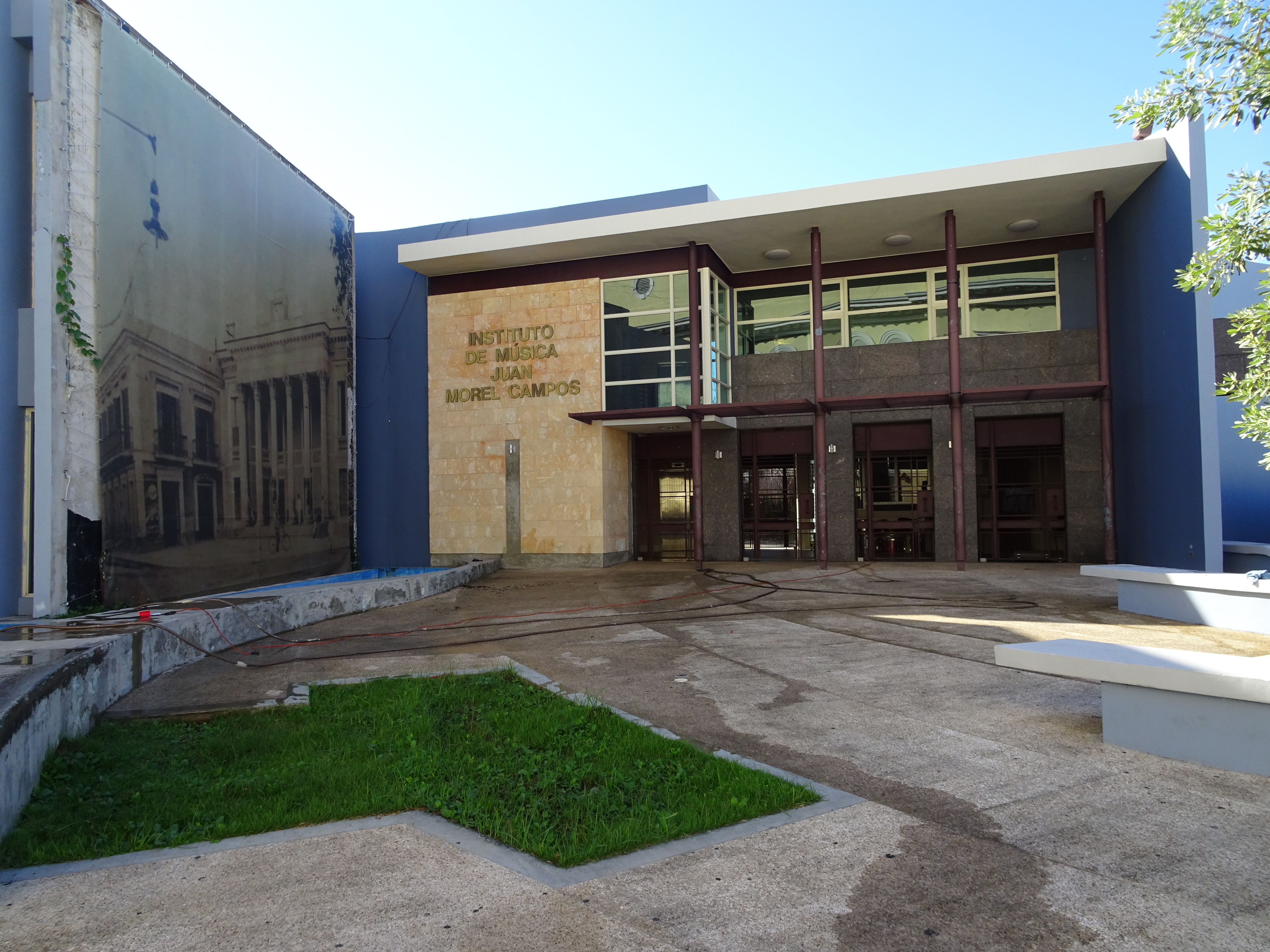 Instituto de Música Juan Morel Campos, C. Cristina y C. Mayor, Bo. Tercero, Ponce, Puerto Rico, mirando al sur-sureste (DSC03149)